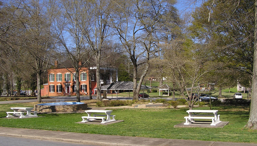 Downtown Homer in Banks County. This photo shows the downtown park with its fountain. The old Banks County Courthouse can be seen in the background, on the left.